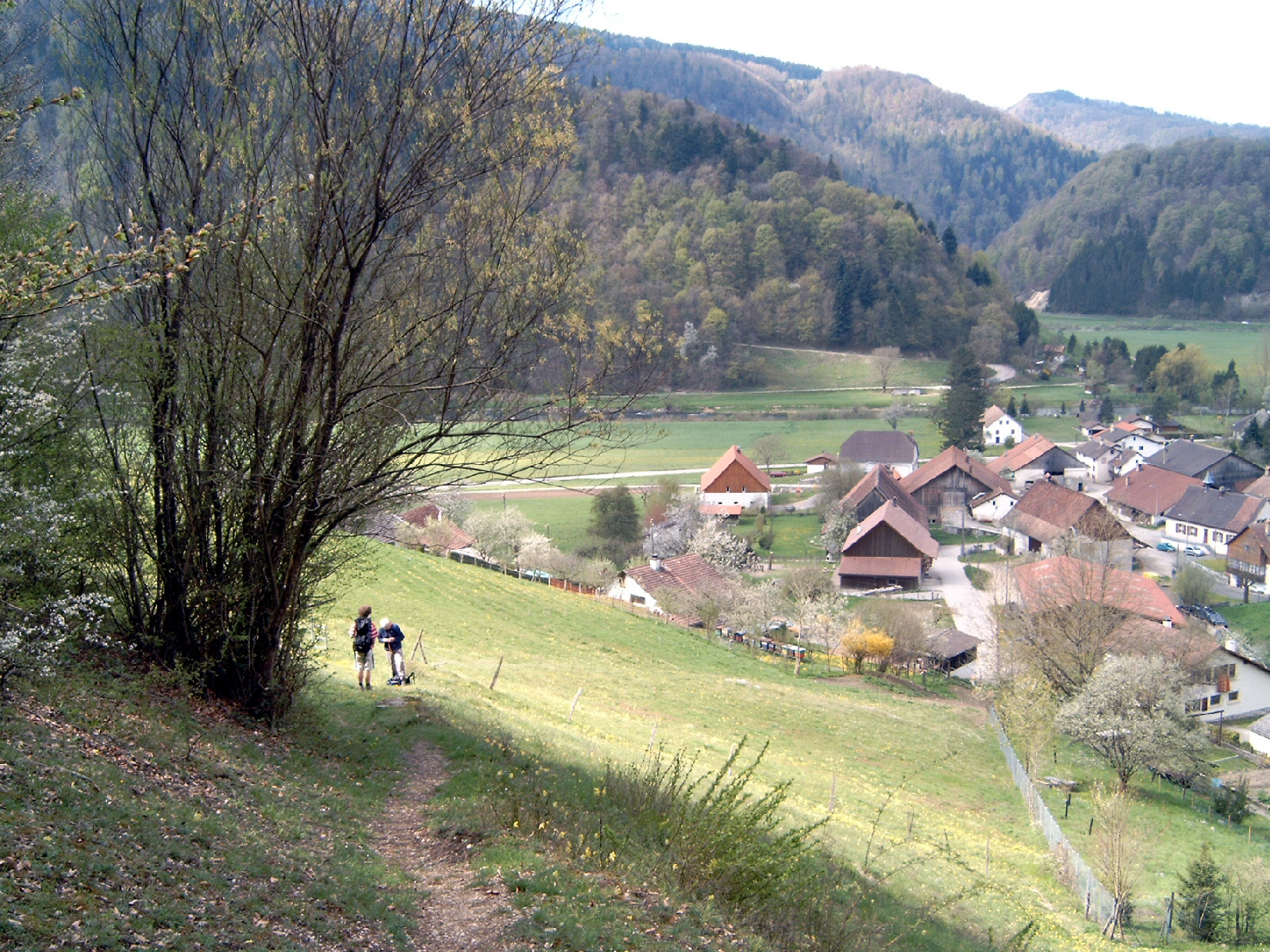 Ocourt in spring